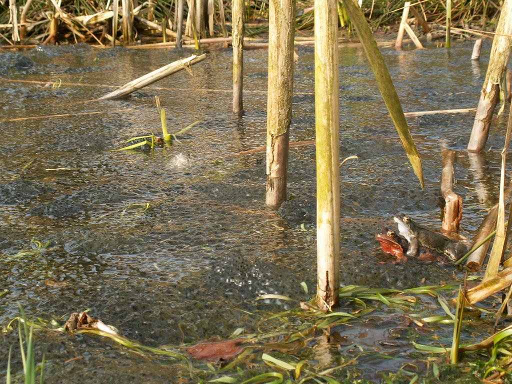 Amplex of Common Frogs (Rana temporaria) The female is of a reddish colour type, the male has a white throat and grey back over its normal colours. This part of the pond is totally filled with eggs of previous spawners.